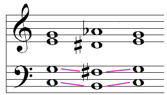 Altered major chord on B with diminished seventh (B, D♯, F♯, A♭), equivalent to a minor-minor seventh chord on G♯ (G♯, B, D♯, F♯)